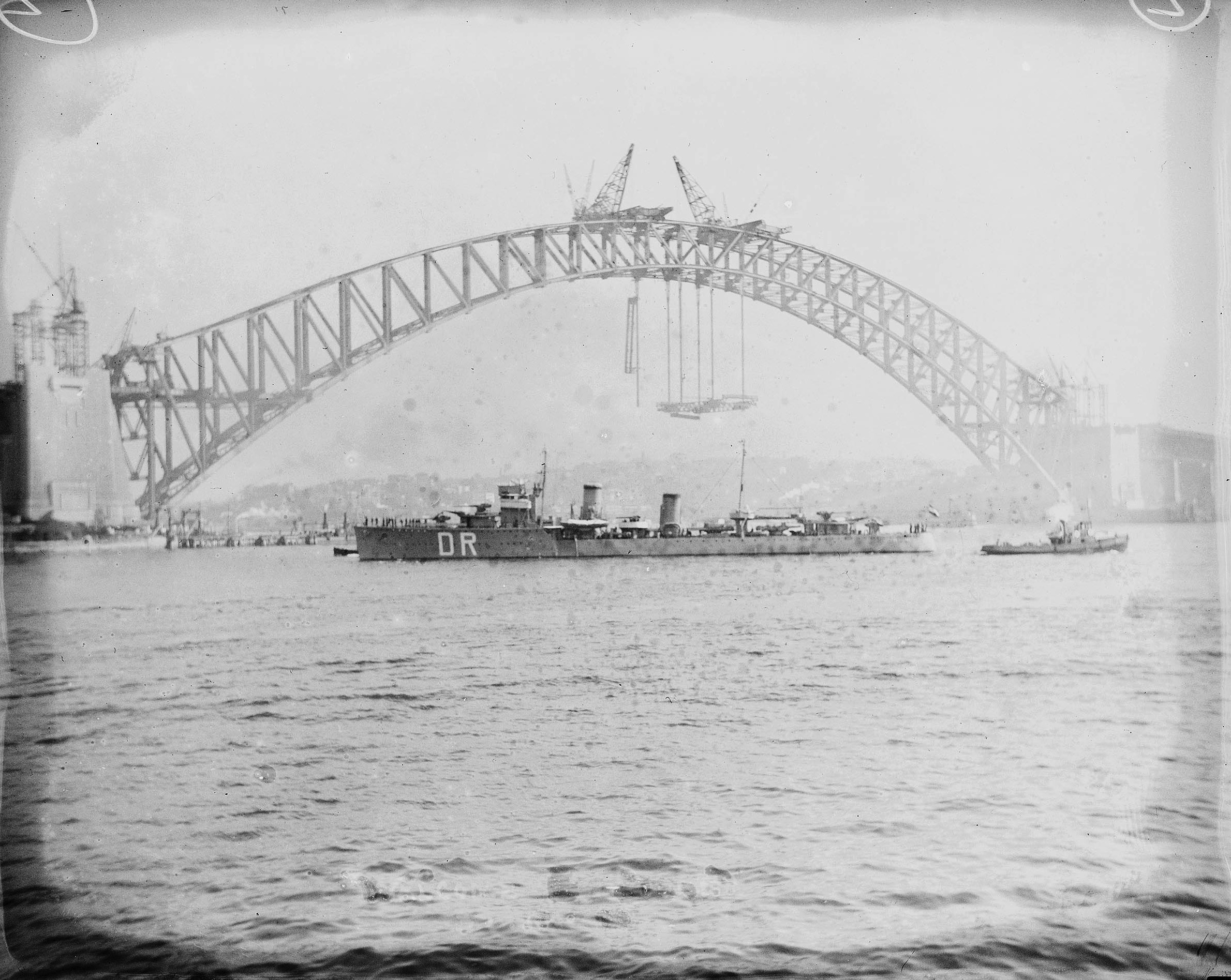 The Koninklijke Marine (Royal Netherlands Navy) including HNLMS JAVA, HNLMS EVERSTEN and HNLMS DE RUYTER arrived in Sydney on 3 October 1930. The ships berthed in West Circular Quay and The Sydney Morning Herald reported on the 'unfamiliar spectacle' of the Dutch squadron arrival. This photo is part of the Australian National Maritime Museum’s Samuel J. Hood Studio collection. Sam Hood (1872-1953) was a Sydney photographer with a passion for ships. His 60-year career spanned the romantic age of sail and two world wars. The photos in the collection were taken mainly in Sydney and Newcastle during the first half of the 20th century. The ANMM undertakes research and accepts public comments that enhance the information we hold about images in our collection. This record has been updated accordingly. Photographer: Samuel J. Hood Studio Collection Object no. 00034767 Check out our blog on naval visits to Sydney bit.ly/MTtR5H